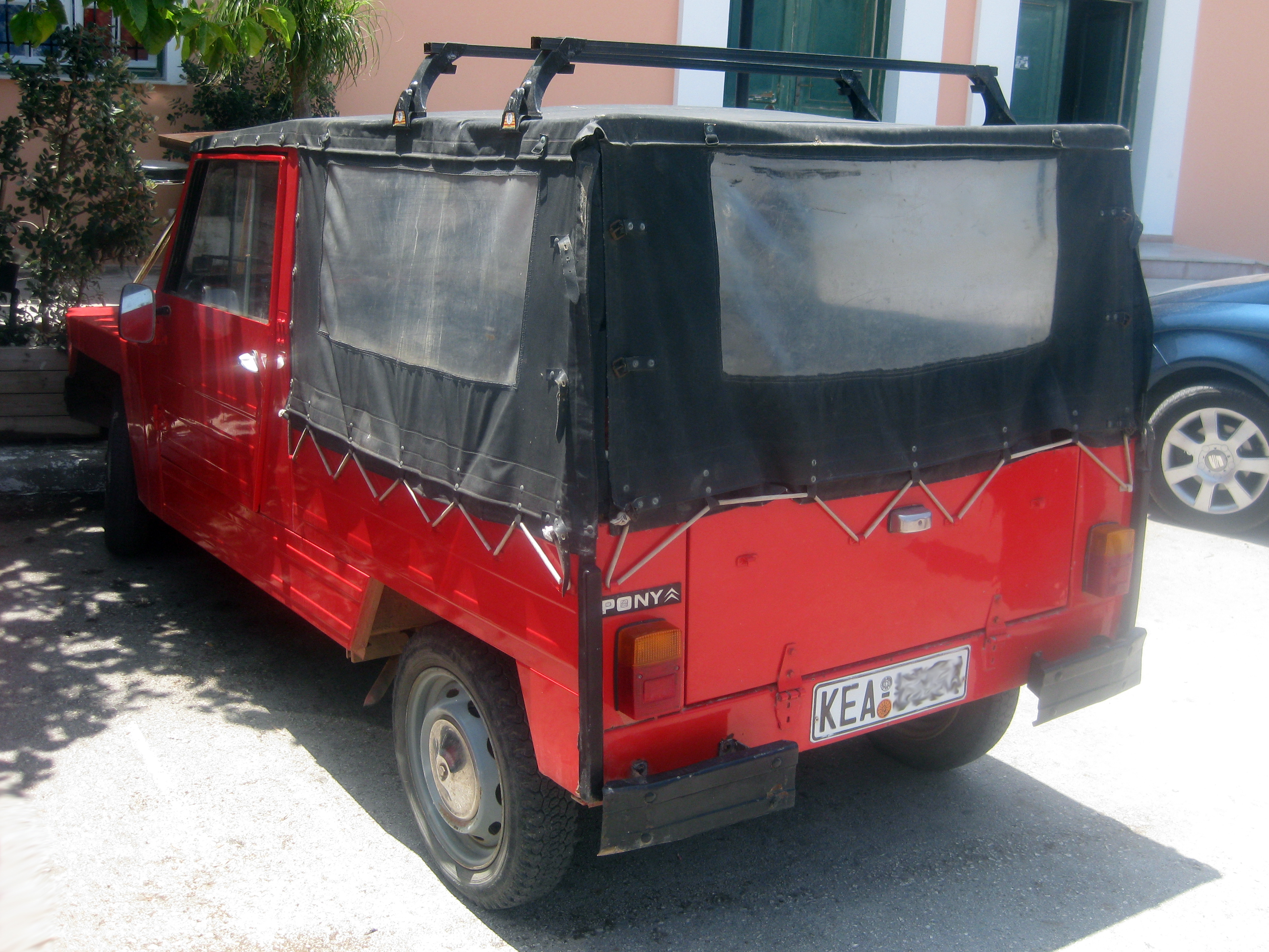 Citroen Pony